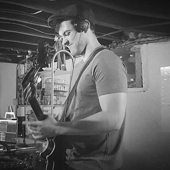 Jack Skuller in The Forest Of Chaos, Mint 400 Records, 9 October 2016